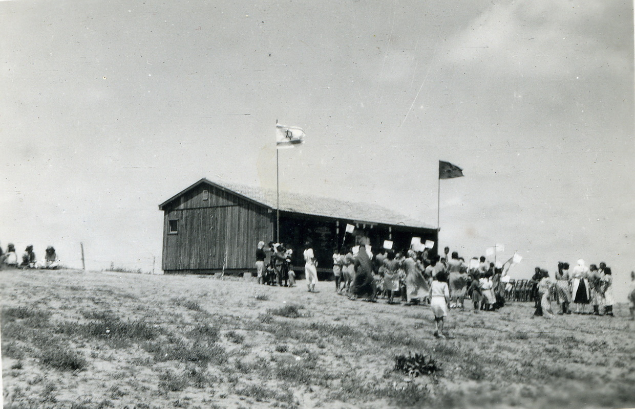 Settlements in Israel